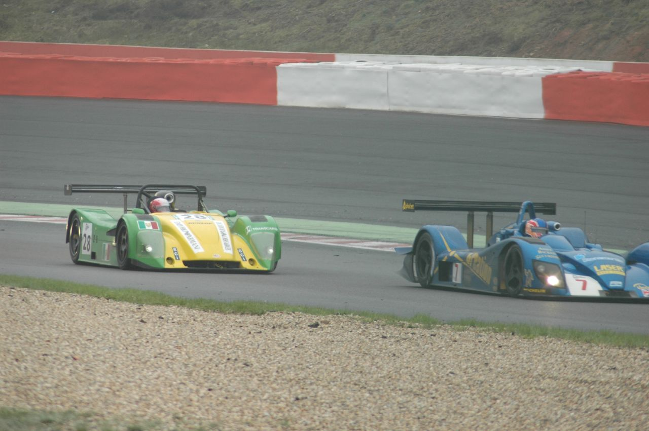 Ranieri Randaccio's Tampolli RTA-2001 (l) overtaken by Nicolas Minassian in a Creation Autsportif DBA4 03S at the 2005 1000km of Spa